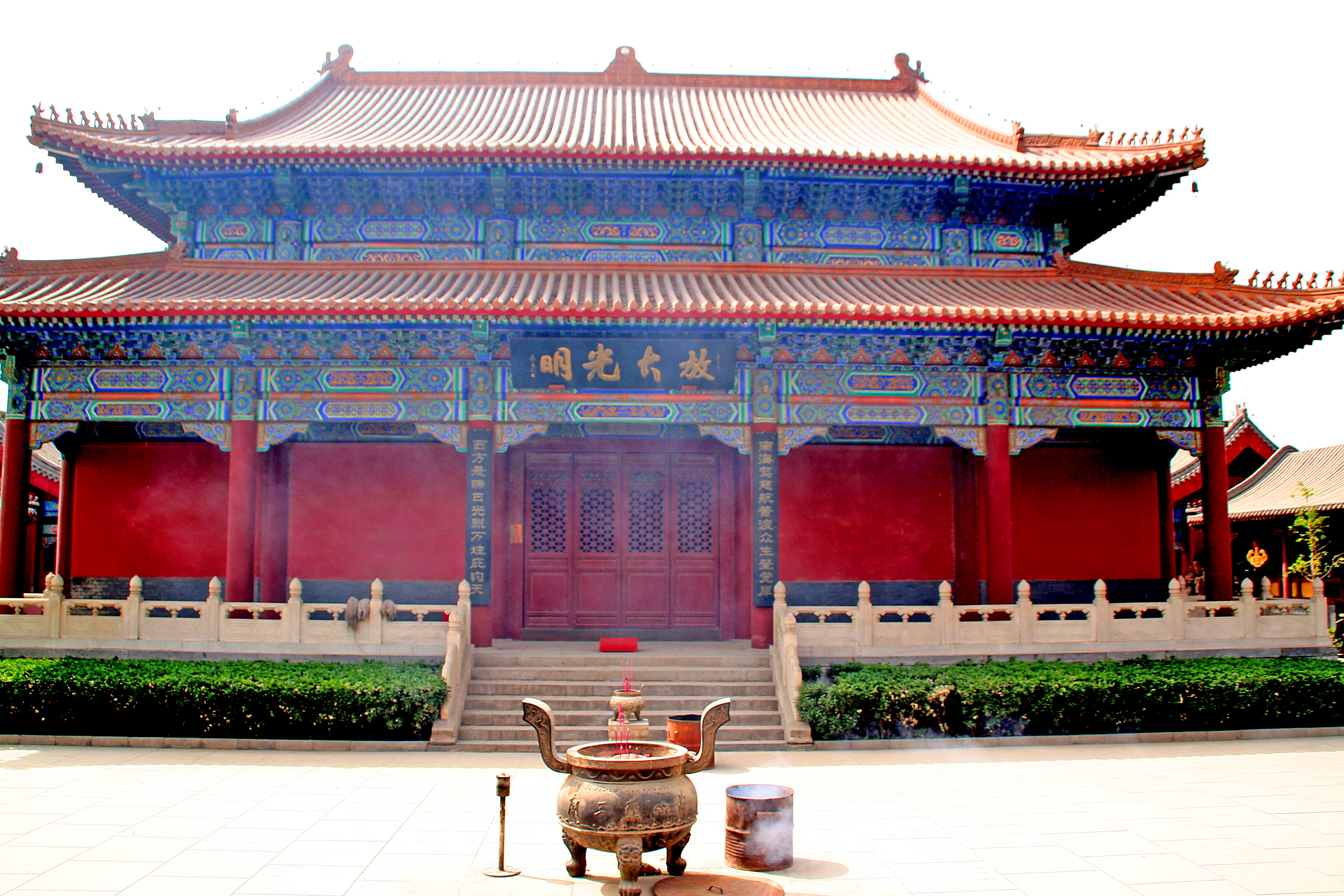 Buddhist temple in Tianjin, China.